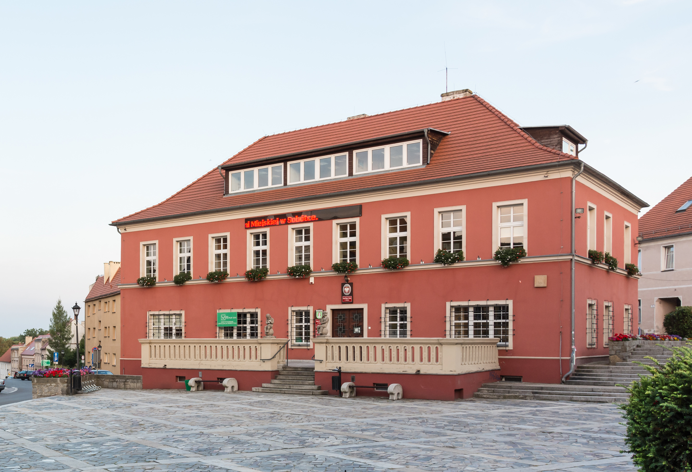 Gmina Office in Sobótka